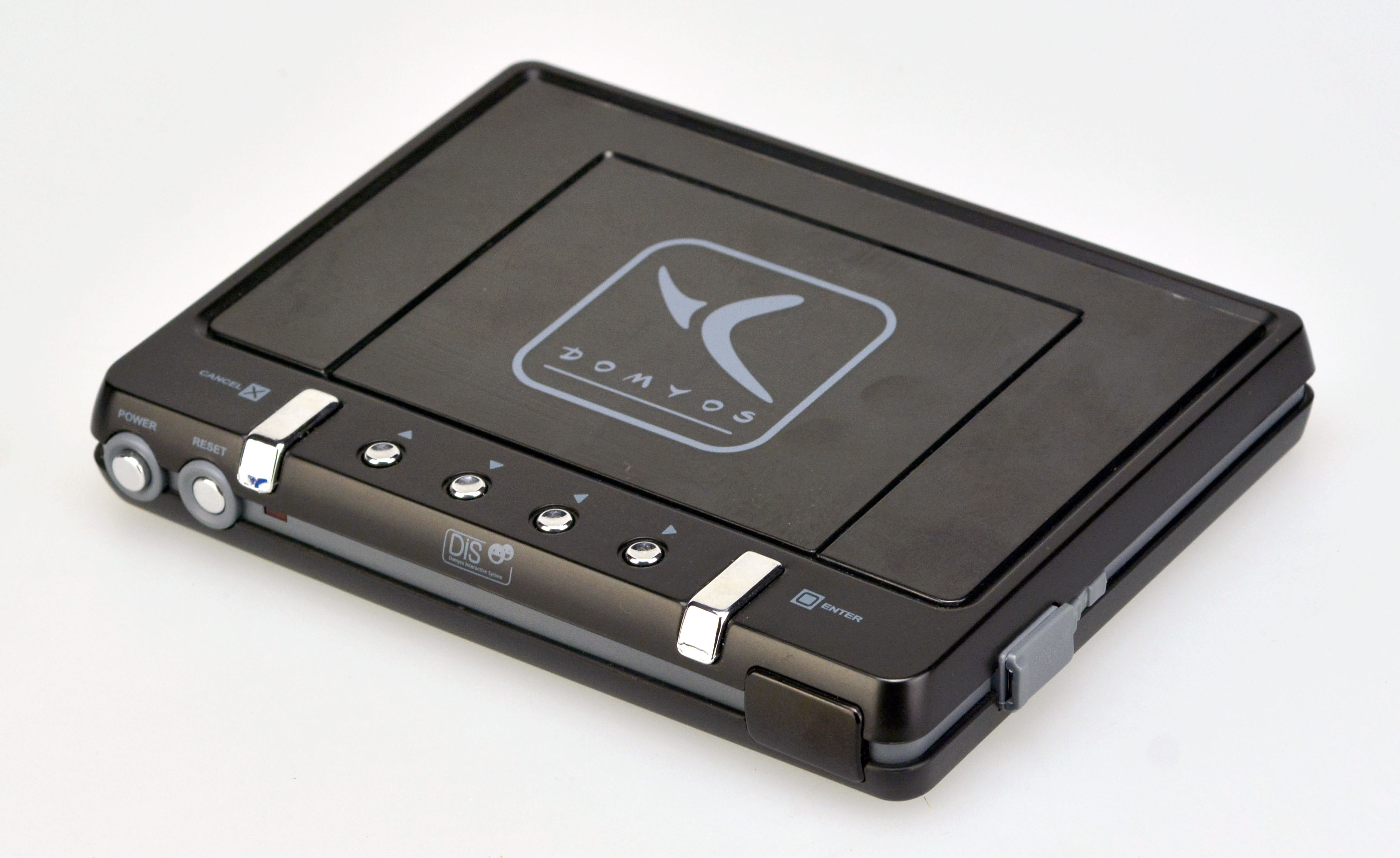 The Domyos Interactive System (DIS) is the European version of the XaviX Port console, sold under the Domyos brand name in Decathlon stores.